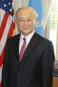 Director General Yukiya Amano of the International Atomic Energy Agency (IAEA)